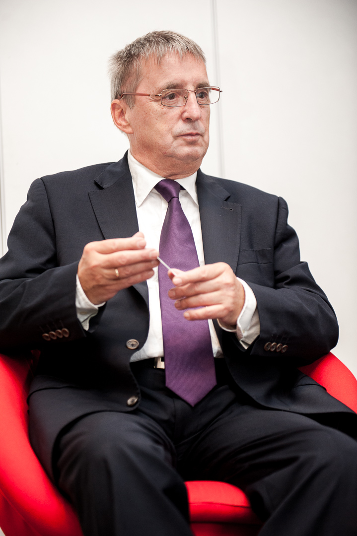 Wolfgang Templin taking part in a panel discussion during the Europeana 1989 roadshow in Warsaw, Poland.